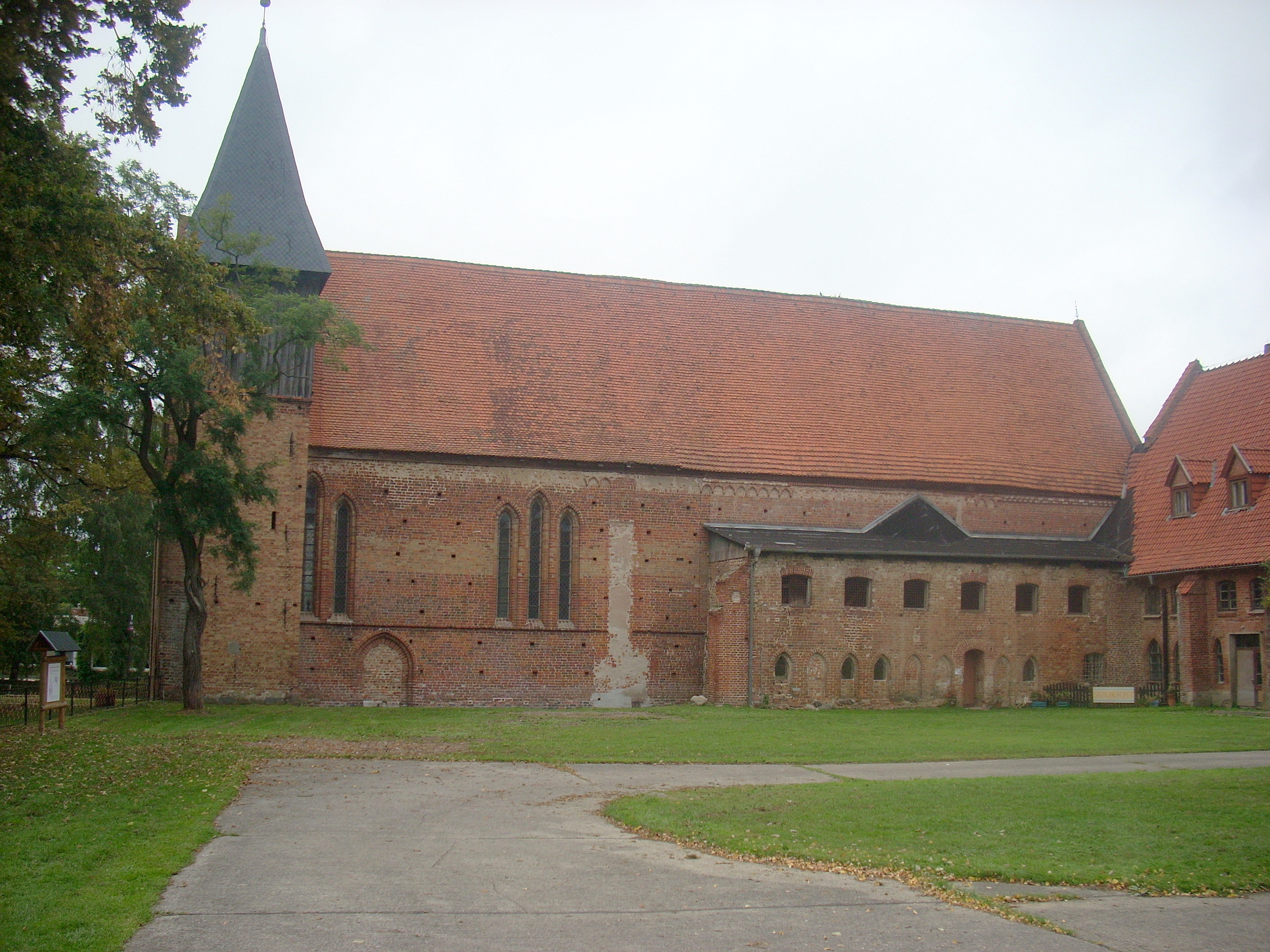 The Cloister Rühn